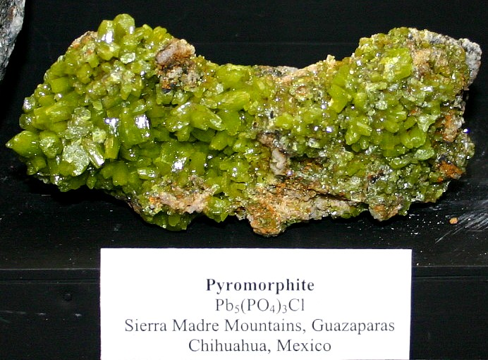 Source: Chris Ralph. This photo taken by Chris Ralph of [1], Photographer and author: photo taken by author.